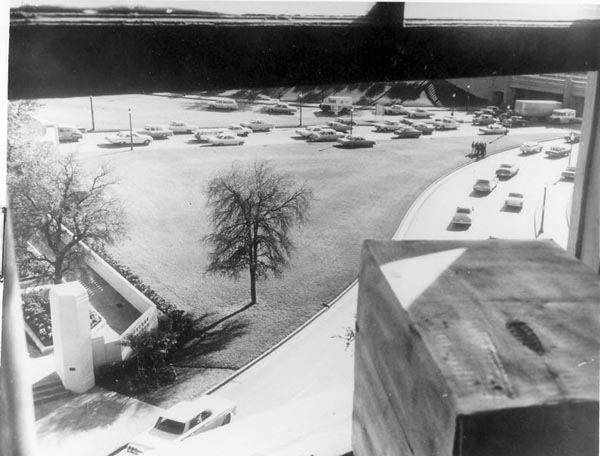 Elm St. (foreground) in Dealey Plaza in Dallas, Texas, seen from the 6th floor of the Texas School Book Depository building.